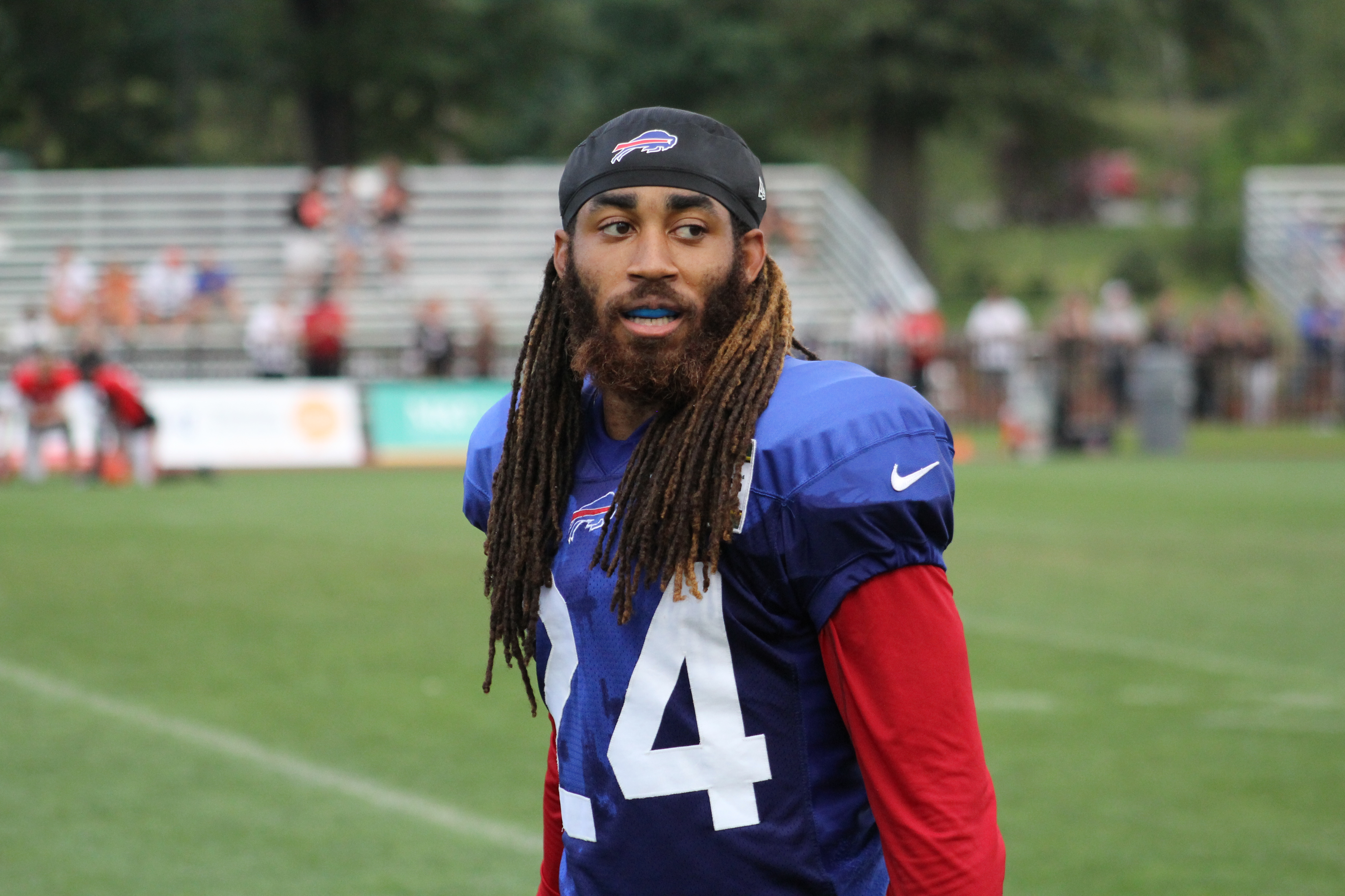 Camp 2015